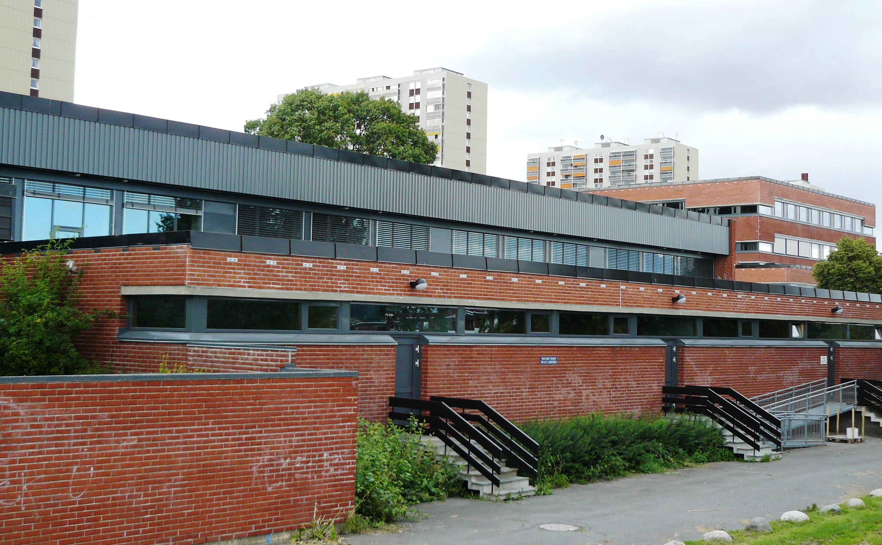 Linderudhallen, a indoor team handball training facility at Linderud in Oslo